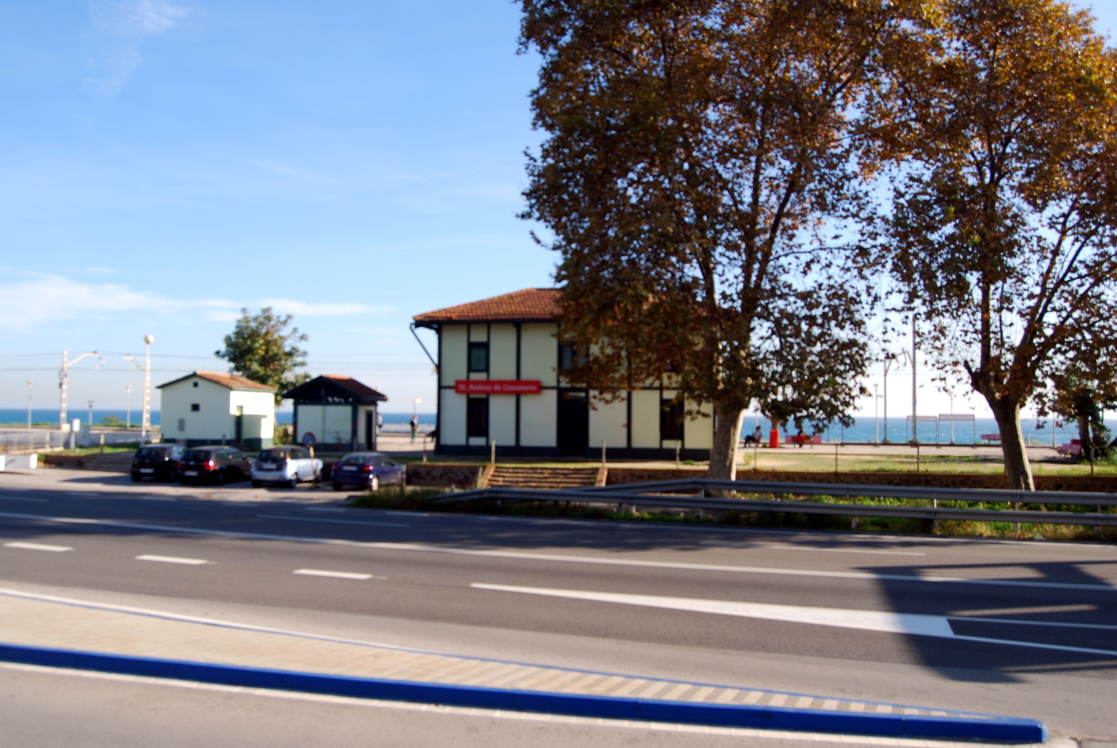 Sant Andreu de Llavaneres, El Maresme, (Catalunya) Old train station.